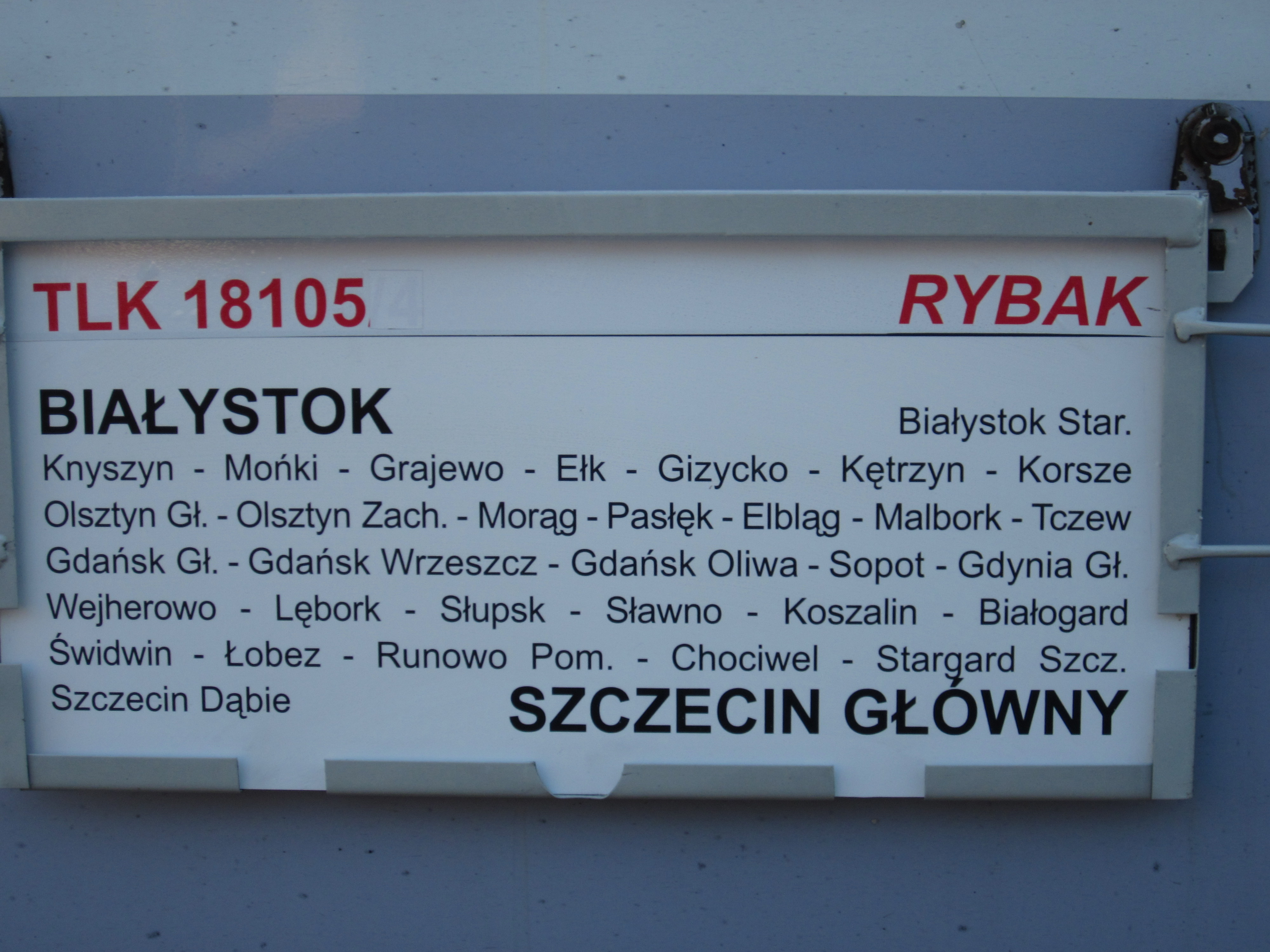 Information board of the trains from Białystok to Szczecin.